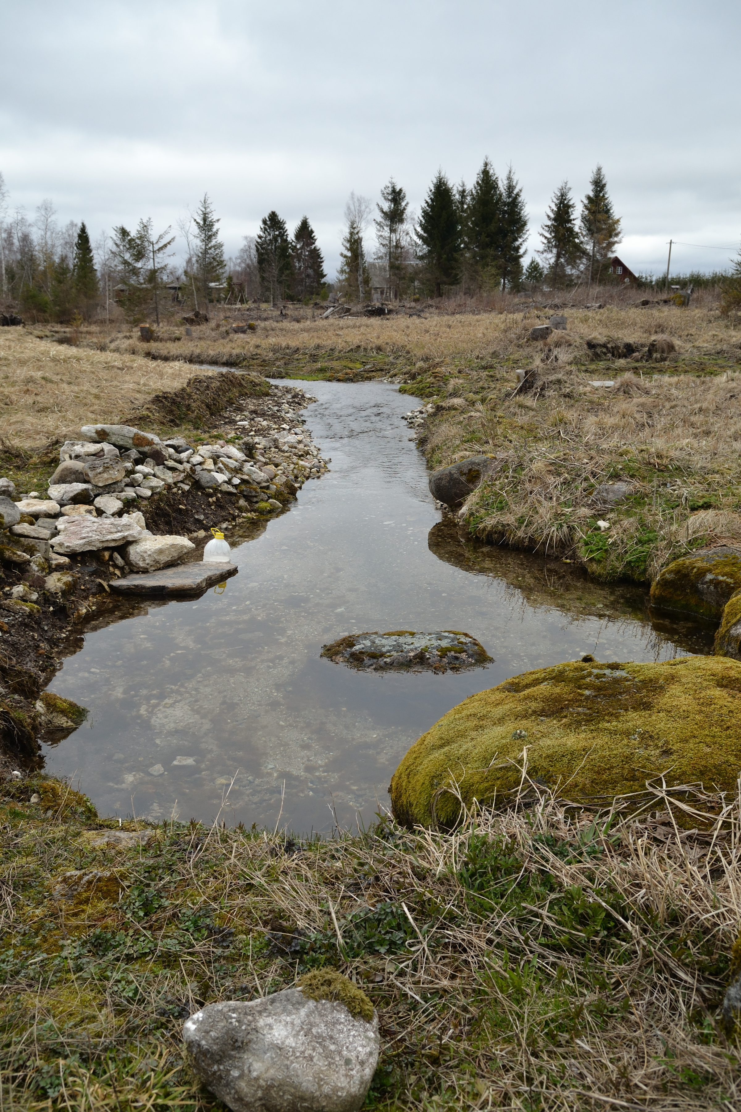 Lindrehti spring